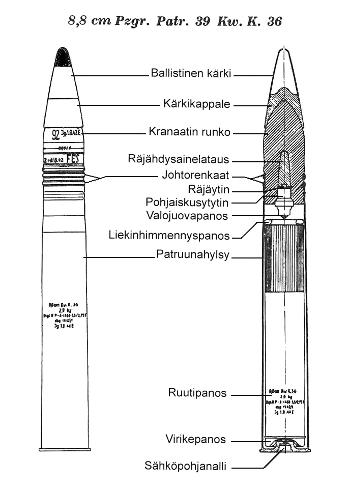 Drawing of a German Pzgr. Patr. 39 Kw.K. 36 APCBC round